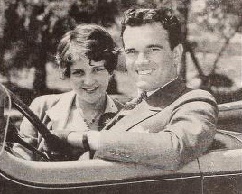 Actor Nick Stuart and wife actress Sue Carol in 1930. Other information for an explanation of the copyright for information regarding public domain